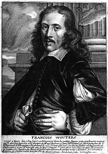 Frans Wouters in Cornelis de Bie's Gulden Cabinet.